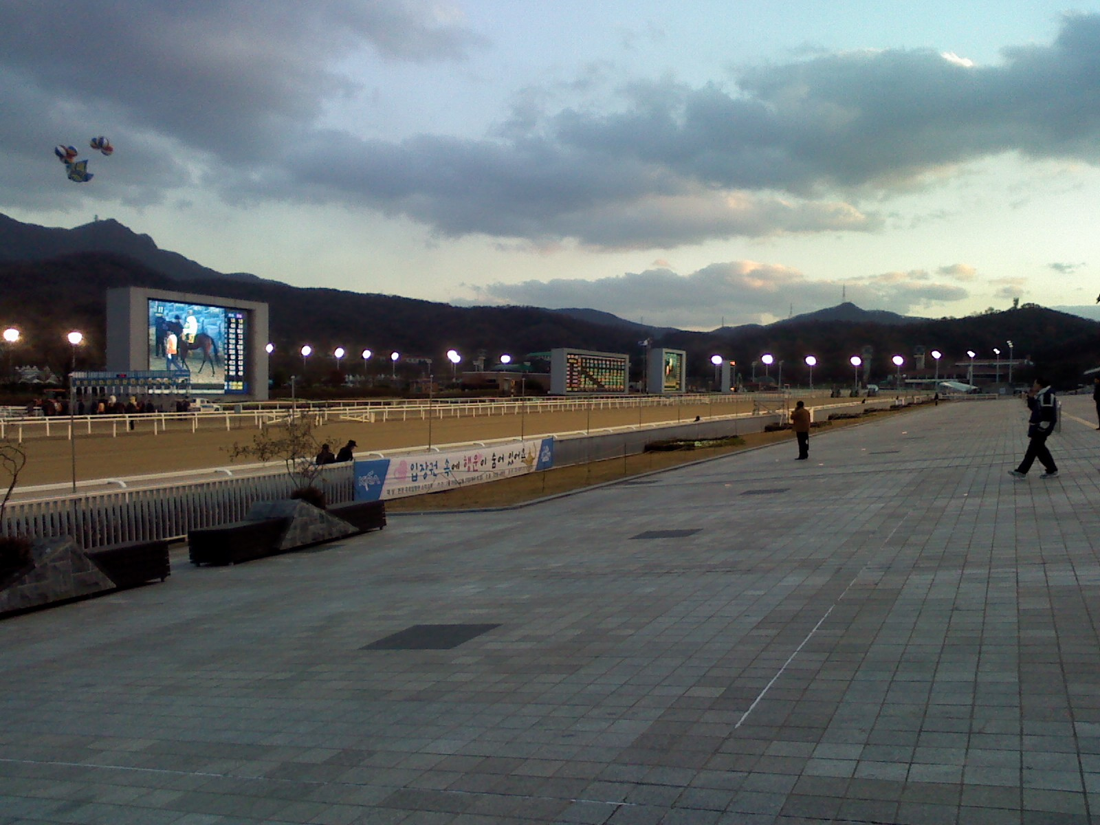 Seeing The Sampo stable, 1st corner, Winning post, The Happy Vill, Equestrian stages at Seoul Racecourse. 1,900m and 2,000m starting post. Two of TV monitor, One of odds display